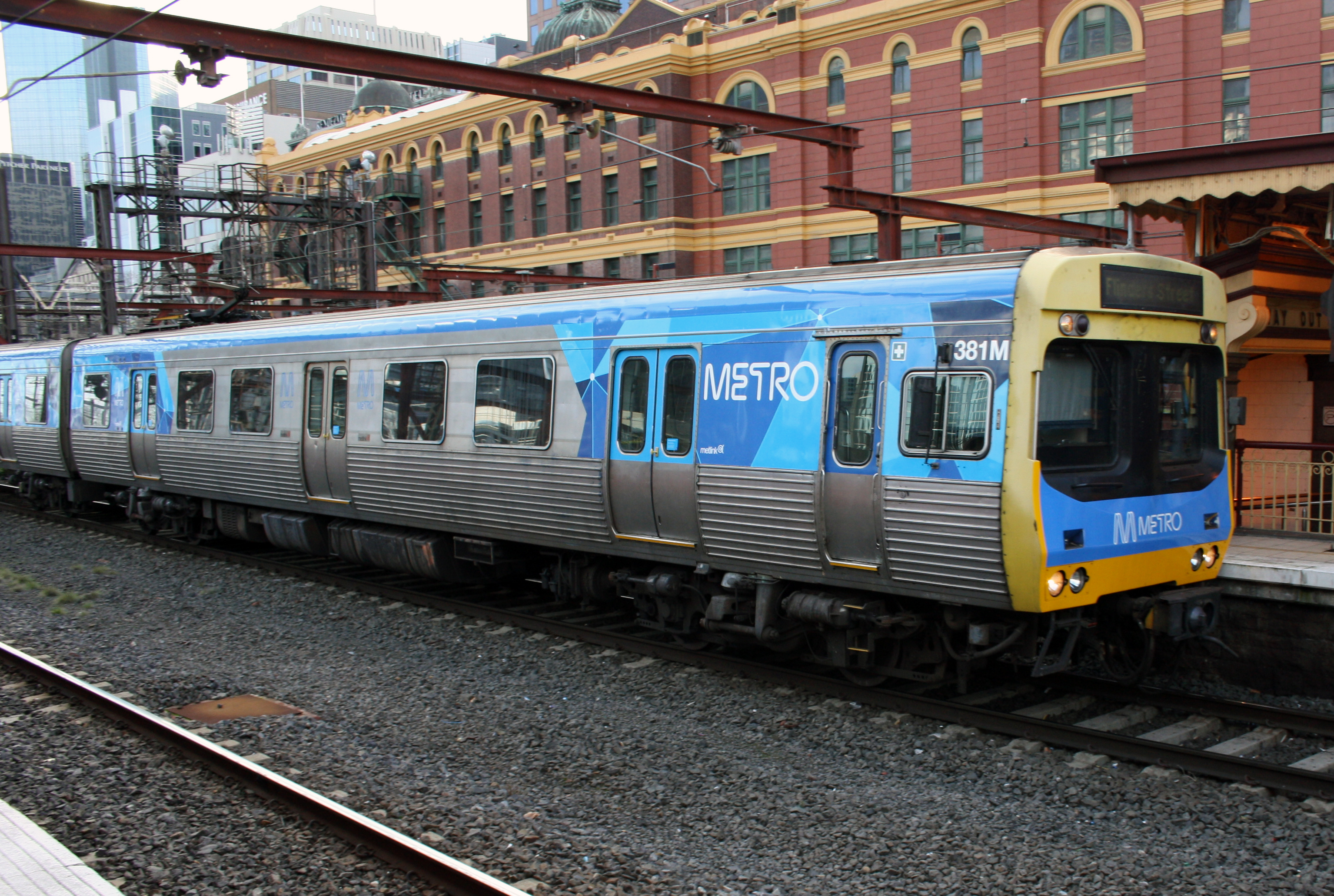 381M in Metro livery arriving at Flinders st.